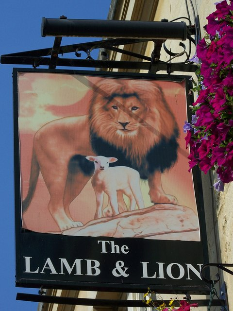 The sign for the Lamb and Lion, Bath In Christian heraldry the lamb is the symbol of the Redeemer and the lion is the symbol of the Resurrection.